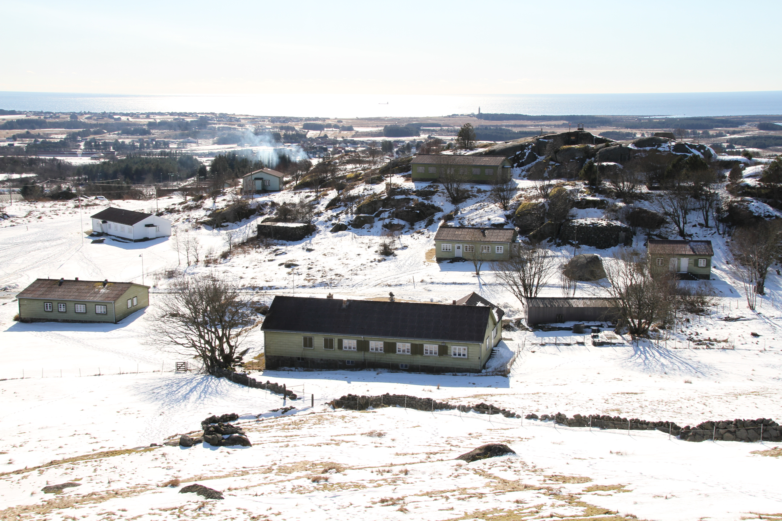 Image from the Nordberg Fort, a world wwar II museum at Lista, Farsund municipality, Vest-Agder county (Norway). The fort was in use by the German occupational forces already from 1941. This museum also holds archaeological remains from the fertile Lista region, including nice bronze-age and iron-age artifacts.